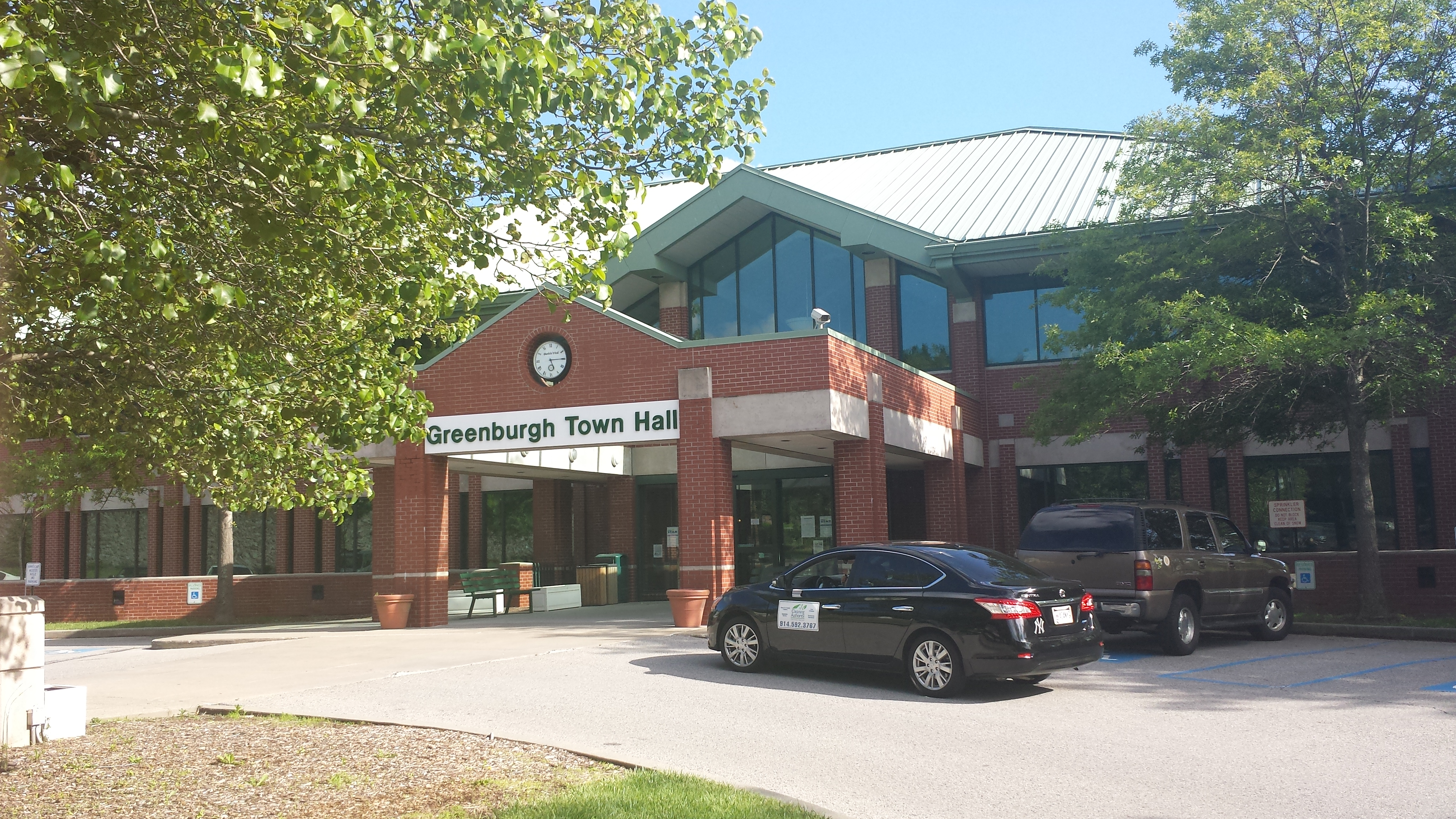 Outside Greenburgh Town Hall